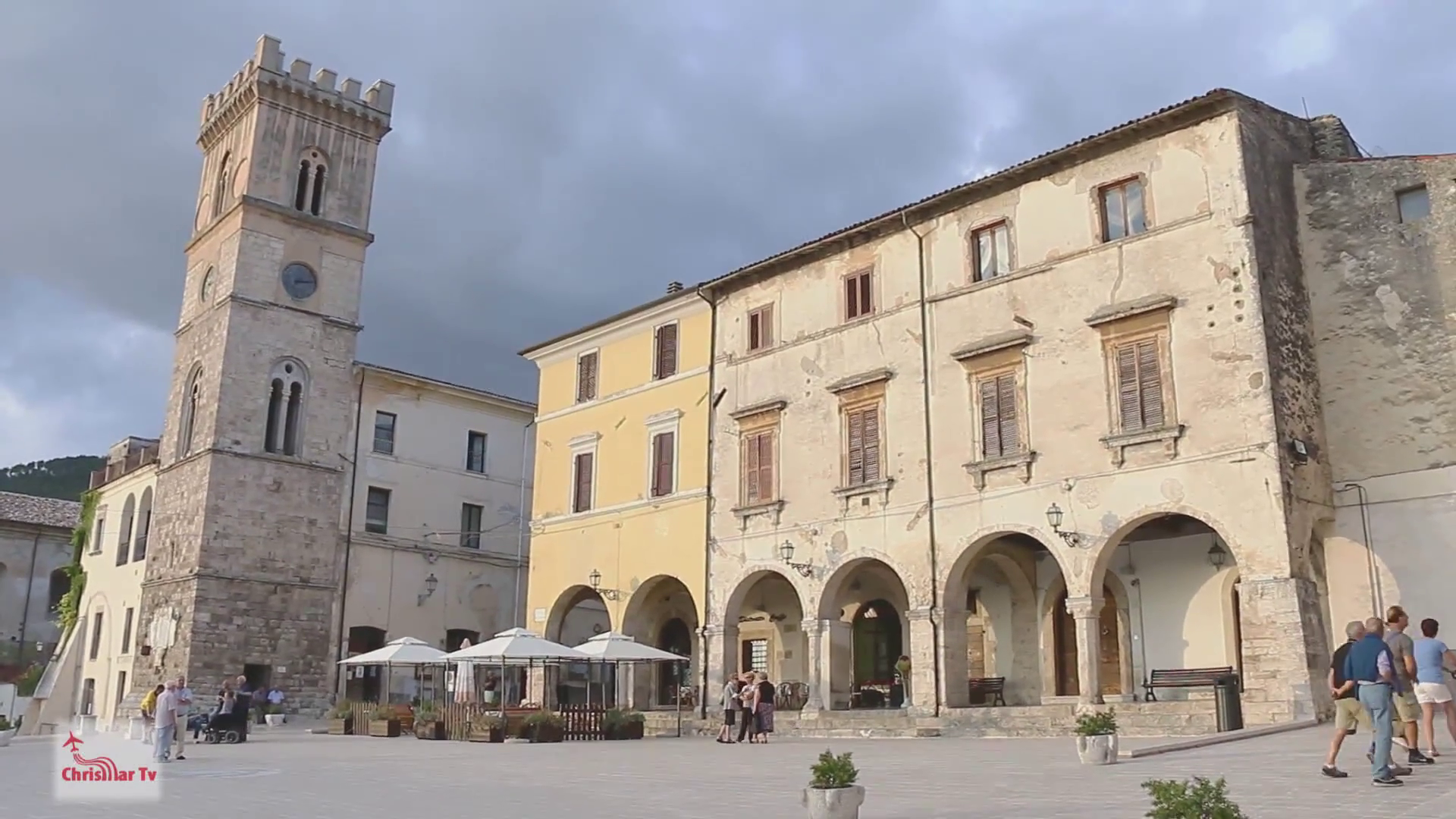 The Civic Tower and the Pagani Malatesta Palace in Piazza del Popolo square - Cittaducale, province of Rieti (central Italy)